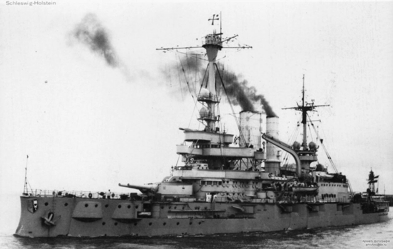 German battleship SMS Schleswig Holstein after the refitting in 1926